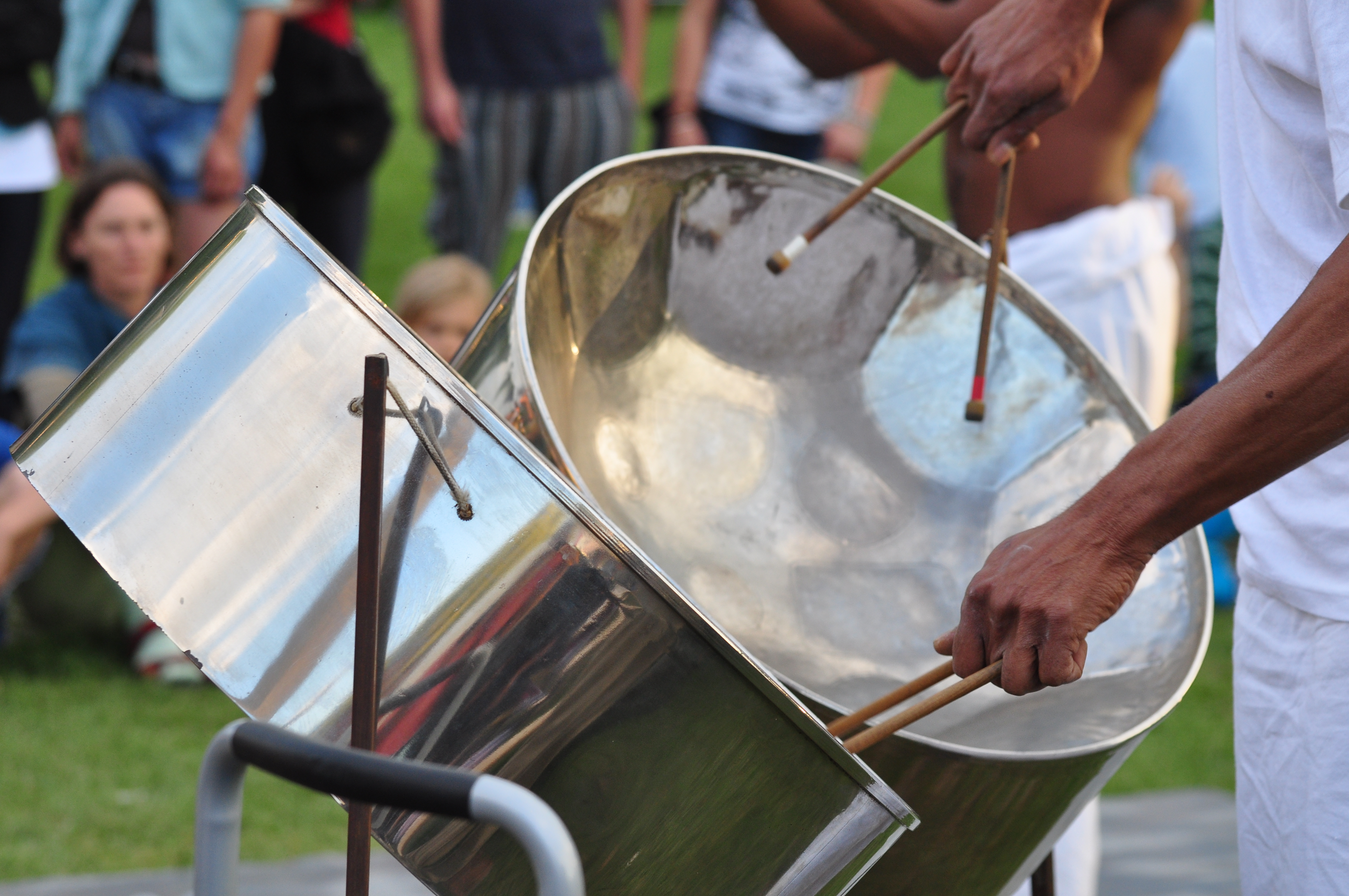 Theaterspektakel 2010 in Zürich-Wollishofen